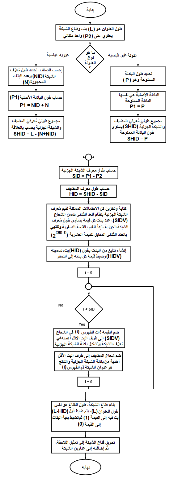 An address space subnetting algorithm, that is used when a specific length of subnet mask is needed